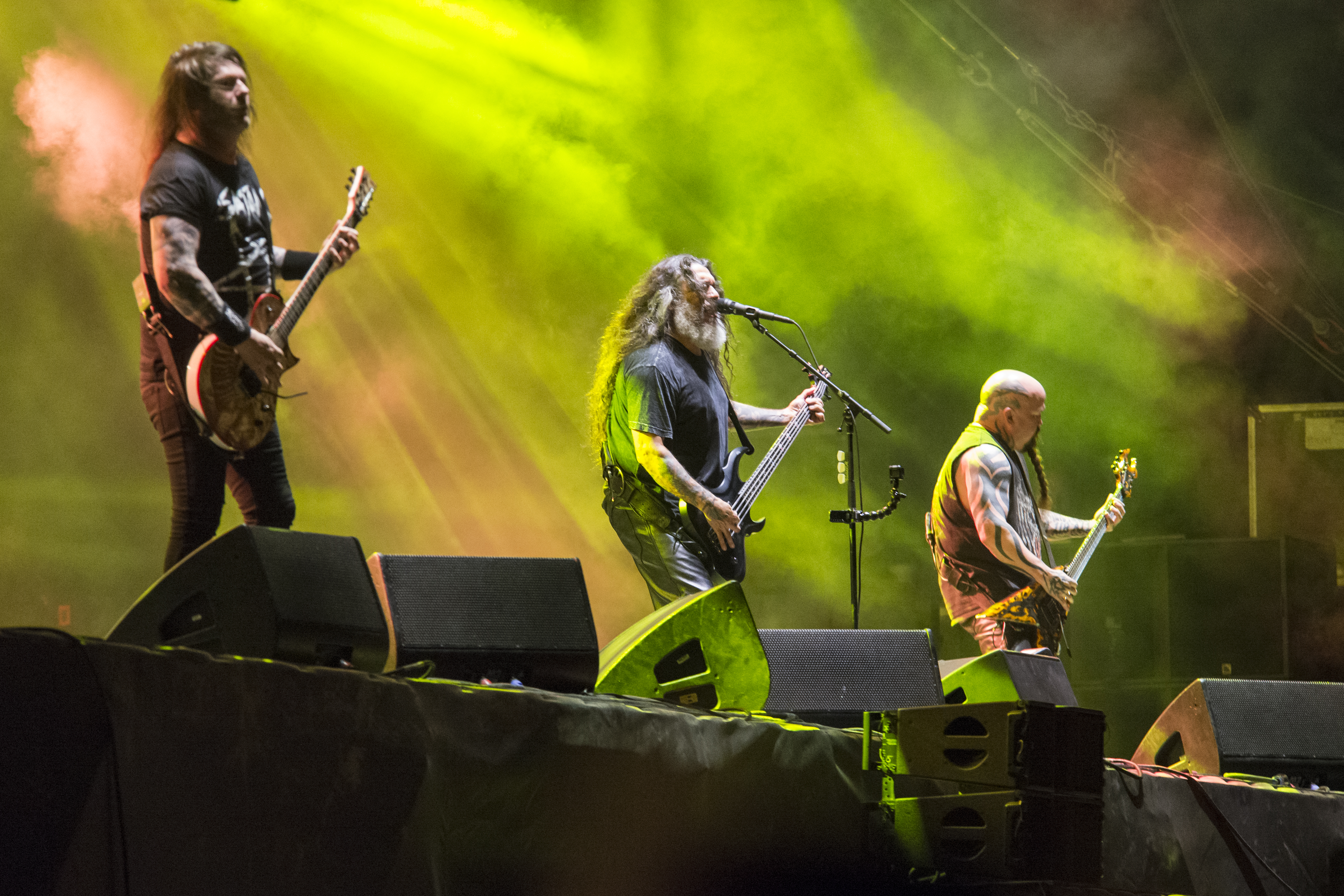 Slayer show, 2017 Hellfest, France.